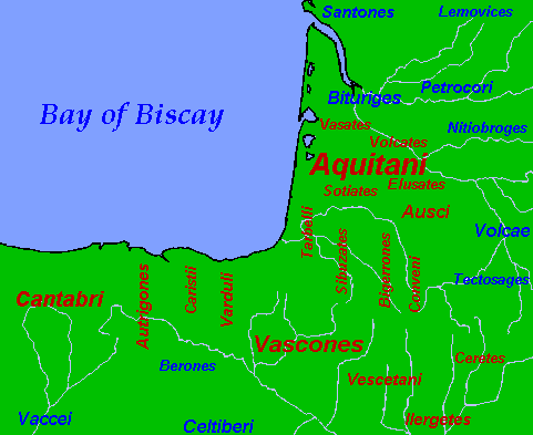 Author: Sugaar Sources: various (ultimately Strabo and Pliny) Based on Image:Basque tribes.gif (the only diference is that it tags the Aquitani confederation) Legend: Map of the Aquitani and surrounding tribes in early Roman times Red: pre-Indoeuropean tribes Blue: Celtic tribes (Note: the macro-ethnicity of some of the tribes is disputed)